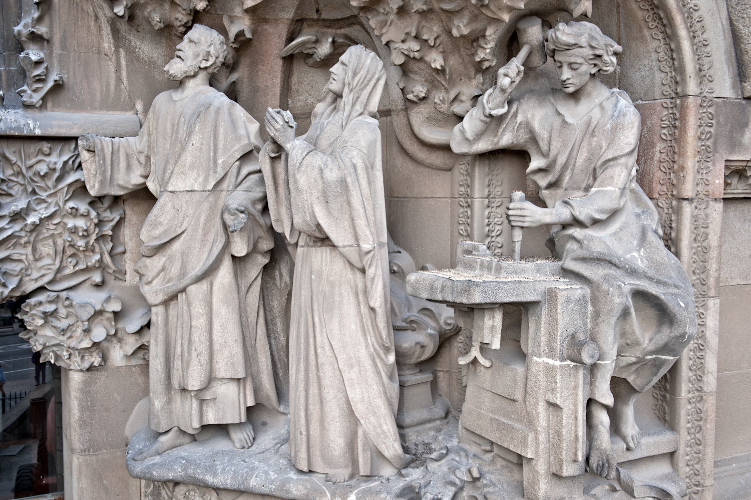 Jesus as a carpenter behind Mary and Joseph